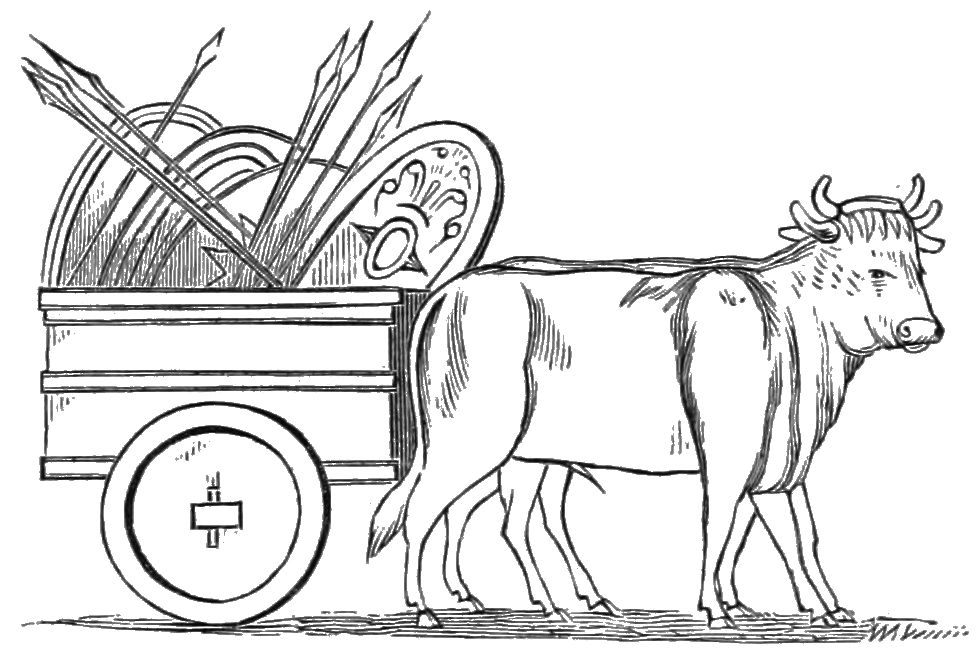 Ancient Roman farm kart and oxen